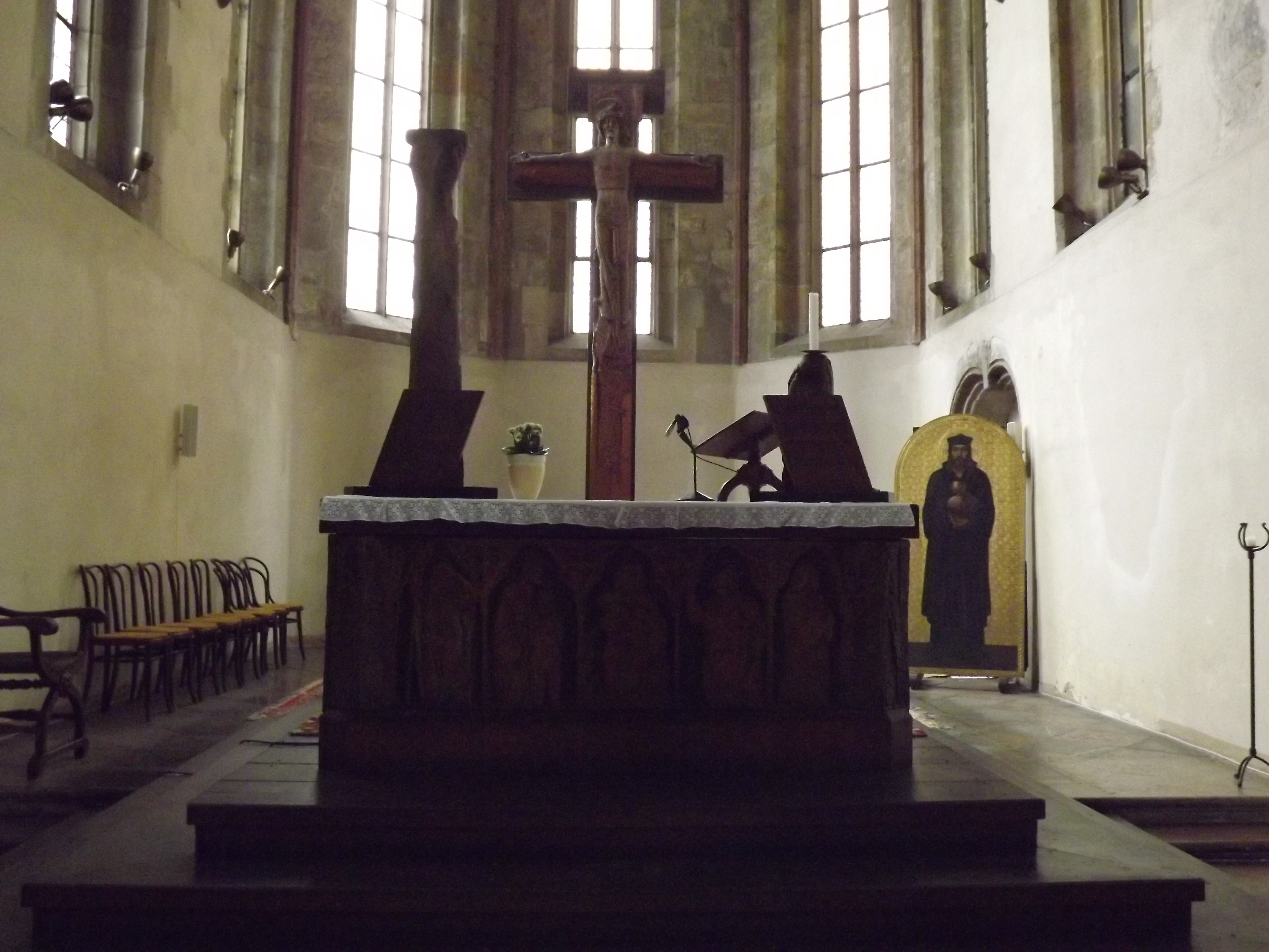 The altar.